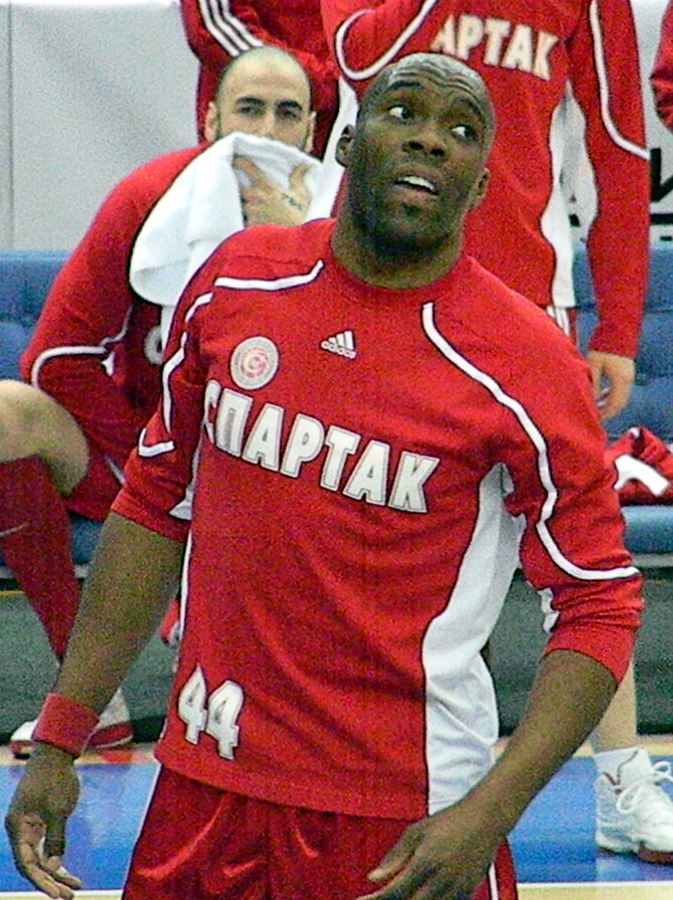 Henry Domercant, american basketball player from Spartak Saint-Petersburg in the game against BC Nizhny Novgorod on March 19th, 2011